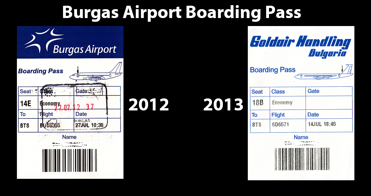 Burgas Airport Boarding Pass modification 2012 vs 2013